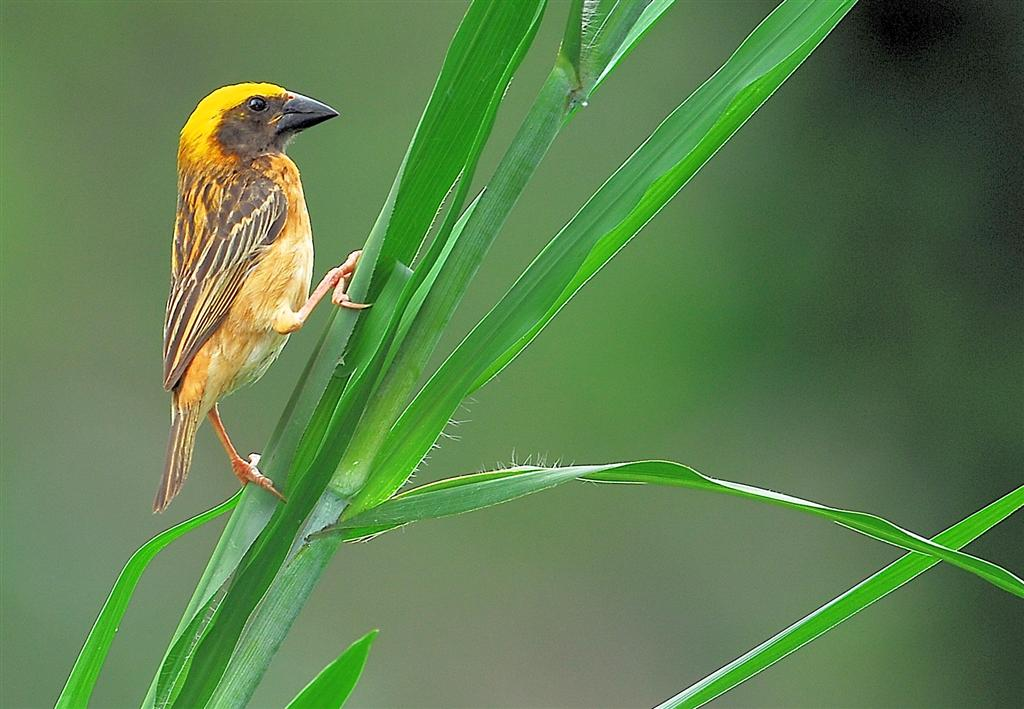 Baya Weaver, Ploceus philippinus burmanicus. The latter race due to the bright yellow crown of the male bird.